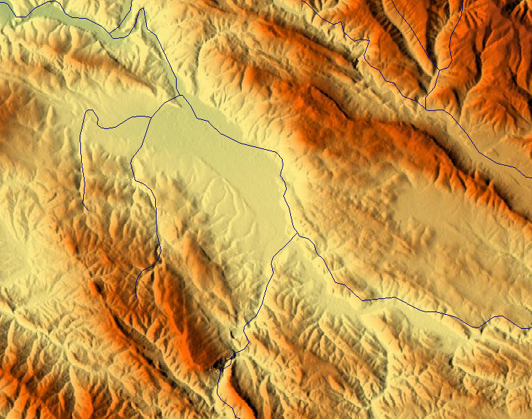 Pirot